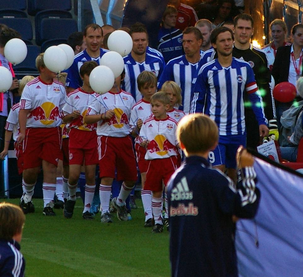 Euro League